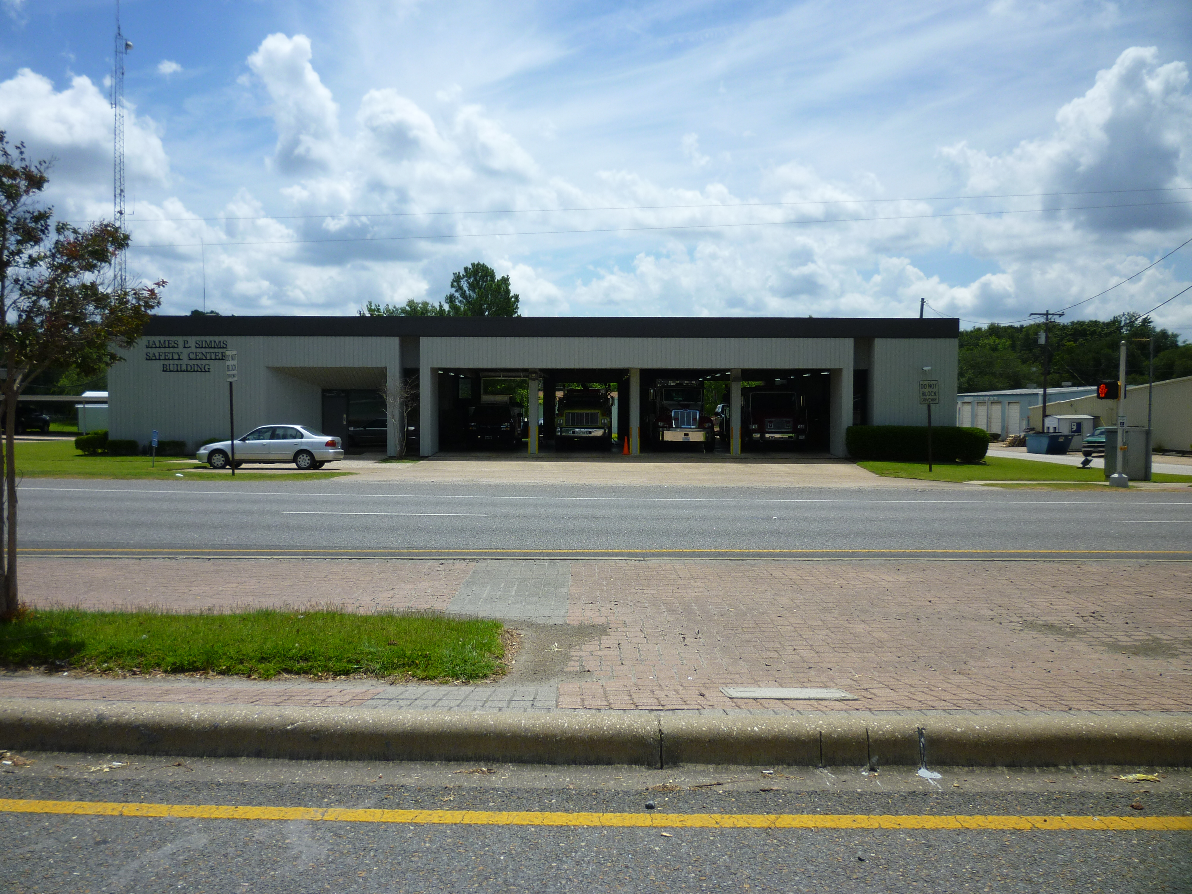 James P. Simms Safety Center Building - Fire Station in Diboll, Texas